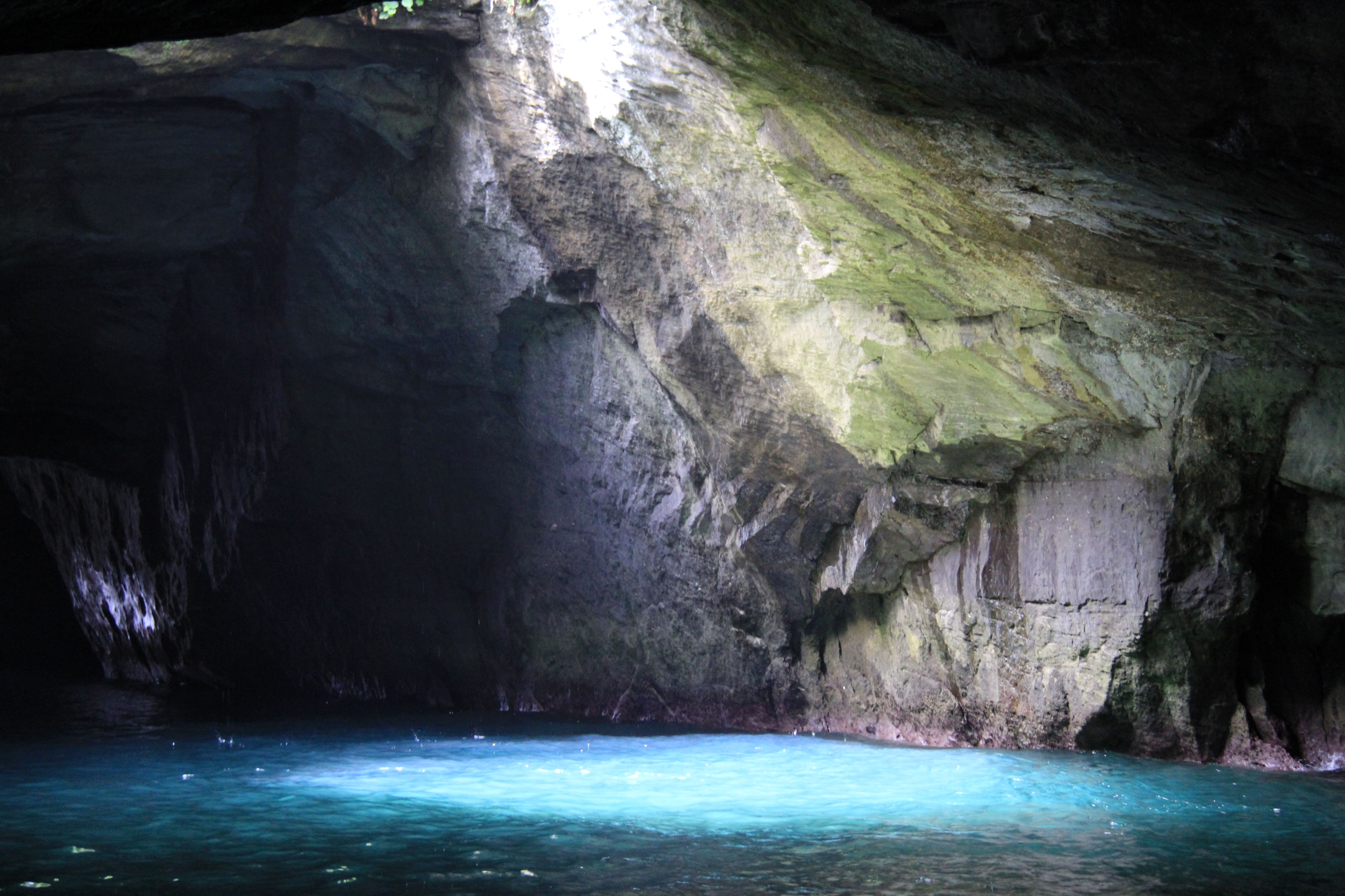 Tensodo, a sea cave in Nishiizu, Shizuoka Prefecture, Japan.